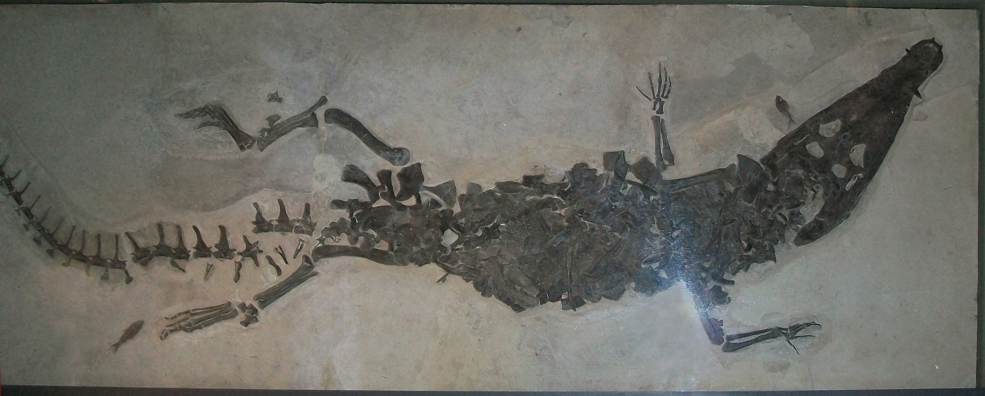 Skeleton of Borealosuchus wilsoni in the Field Museum of Natural History.